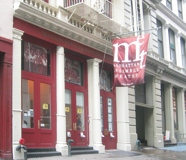 Manhattan Ensemble Theatre (2000–2006), later home of the theater company The Culture Project 55 Mercer Street (corner of Broome Street), Manhattan, New York City